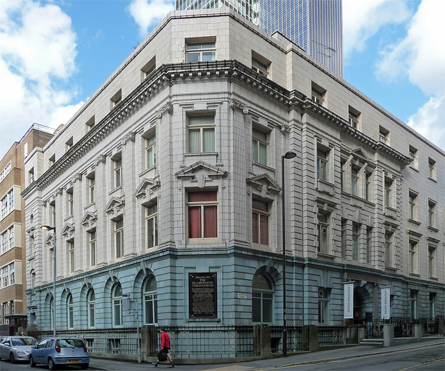 Holyoake House, Dantzic Street, Manchester. Jolly blue and cream faience-clad Classical building, by F.E.L. Harris, 1911, for the Co-operative Union. Grade II listed.